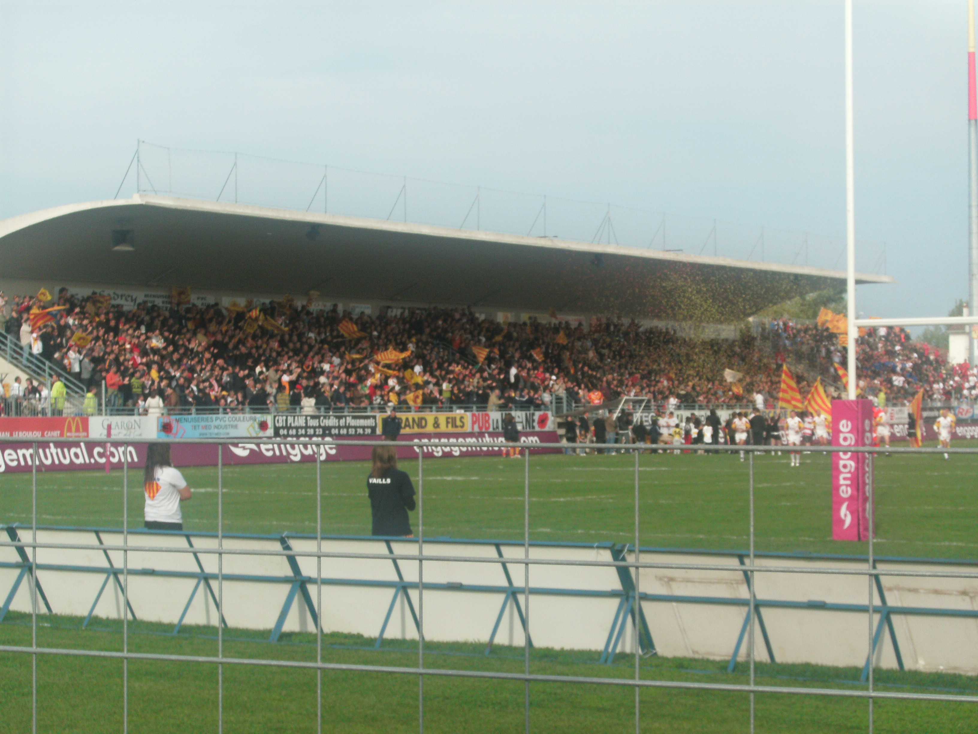 A photograph of the 'Tribune Guasch Laborde', the Stade Gilbert Brutus' northern stand, as the teams come out to the start of a rugby league game between the Catalans Dragons, and the Wigan Warriors. The stand is covered and seats 1,355.